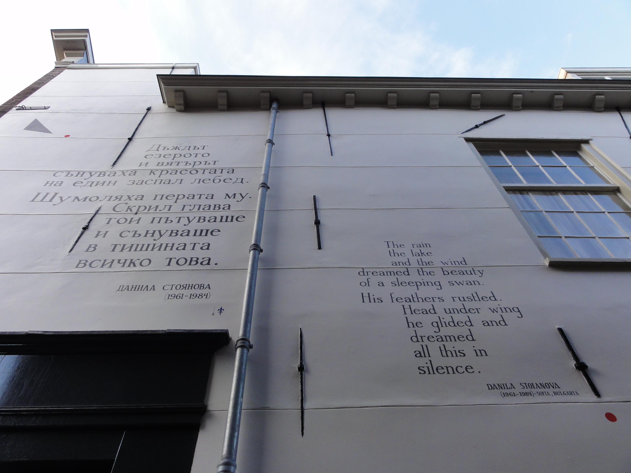 Poem 'The rain, the lake and the wind' by Danila Stoianova as wallpoem in Leiden, the Netherlands